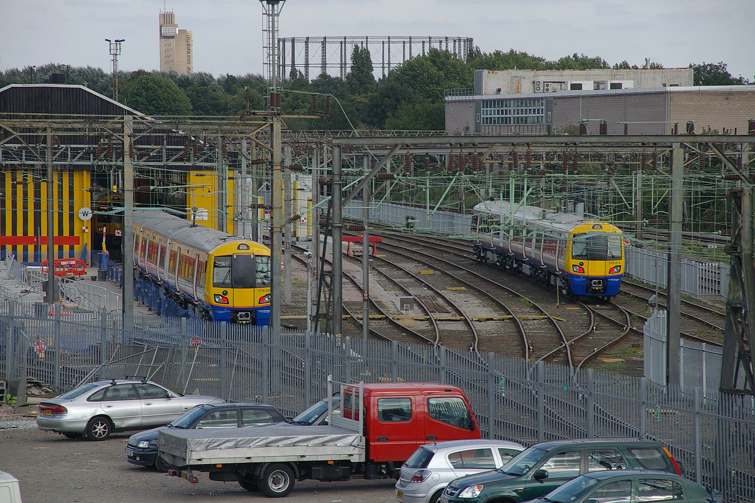 London Overground 378007 amd 378015 "Capitalstar" in the Willesden depot (viewed from the westbound North London Line platform at Willesden Junction railway station).